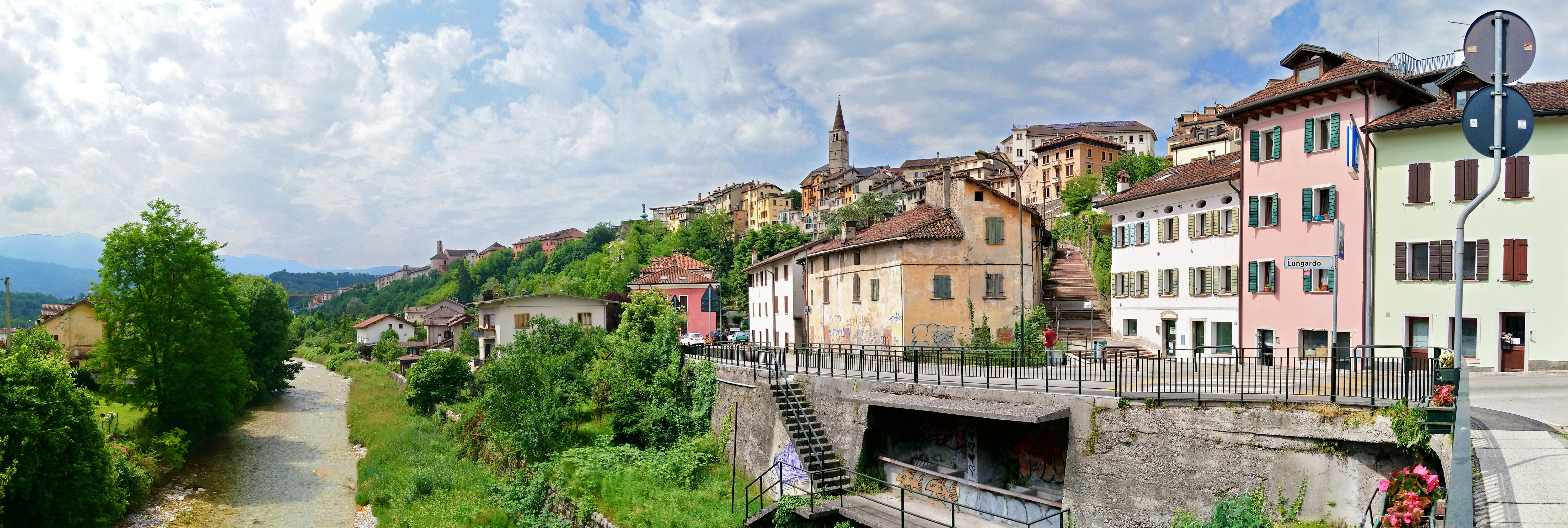 Belluno, Italy. On the left is the river Torrente Ardo.